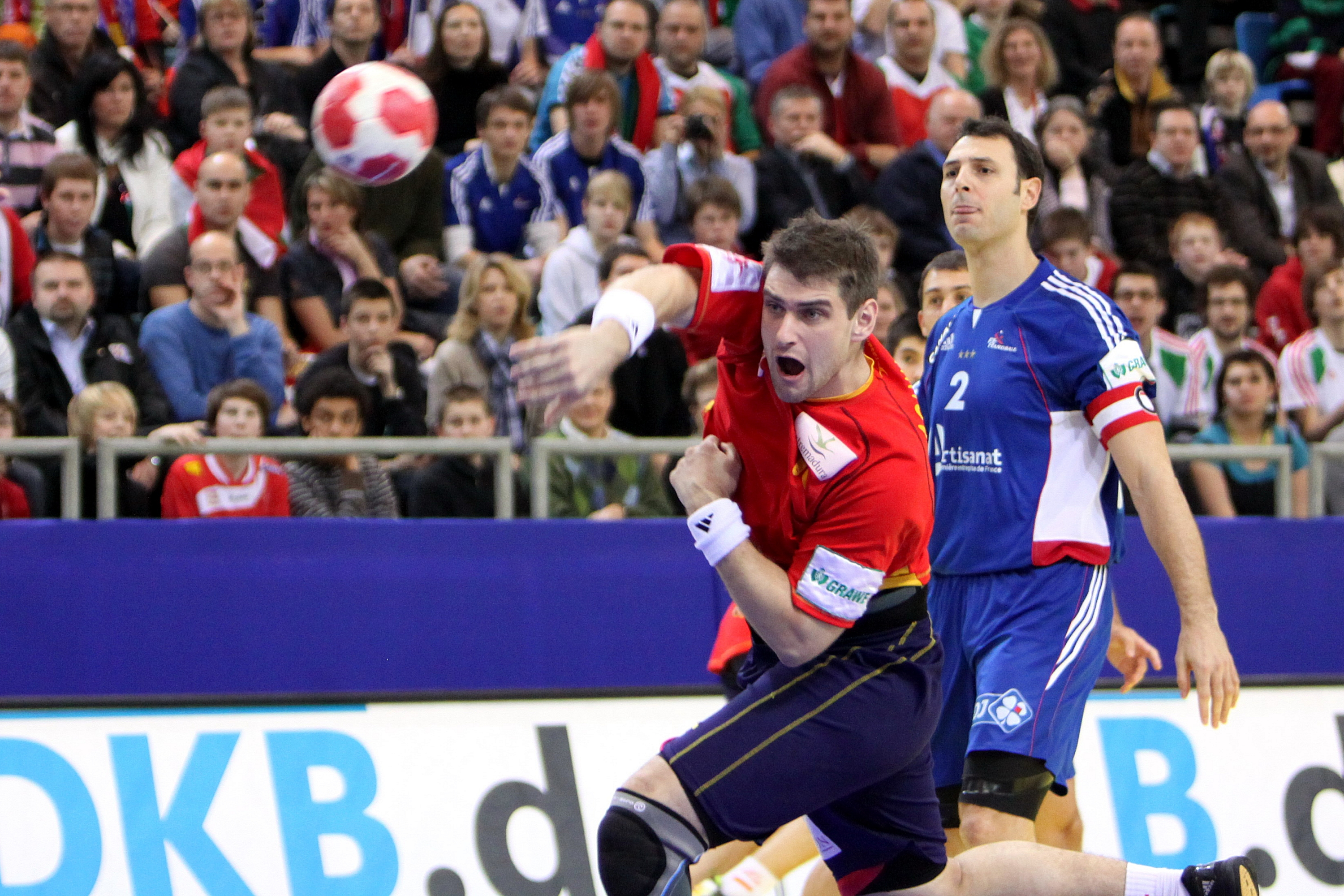 2010 European Men's Handball Championship Group D: France vs Spain 24:24 — Julen Aguinagalde (Spain national handball team) scores, Jérôme Fernandez (France national handball team) is to late